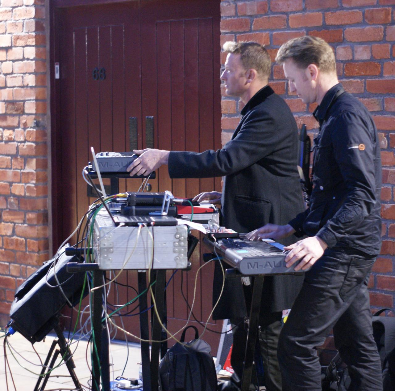 Sheffield-based duo In the Nursery provided a live soundtrack to the silent movies from the early 20th century selected from the Mitchell & Kenyon Collection.